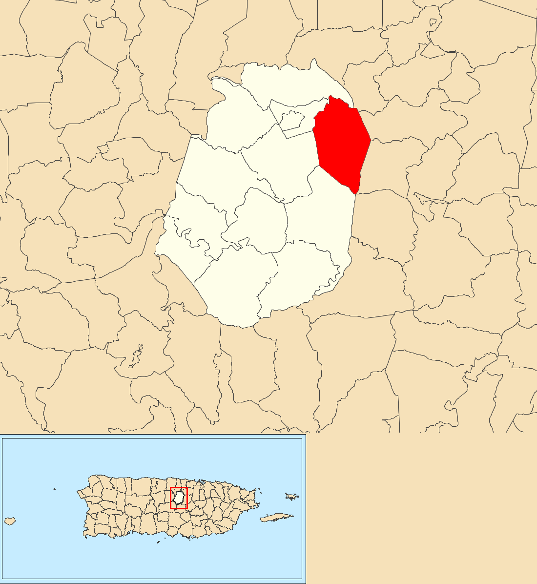 Palmarejo, Corozal, Puerto Rico locator map